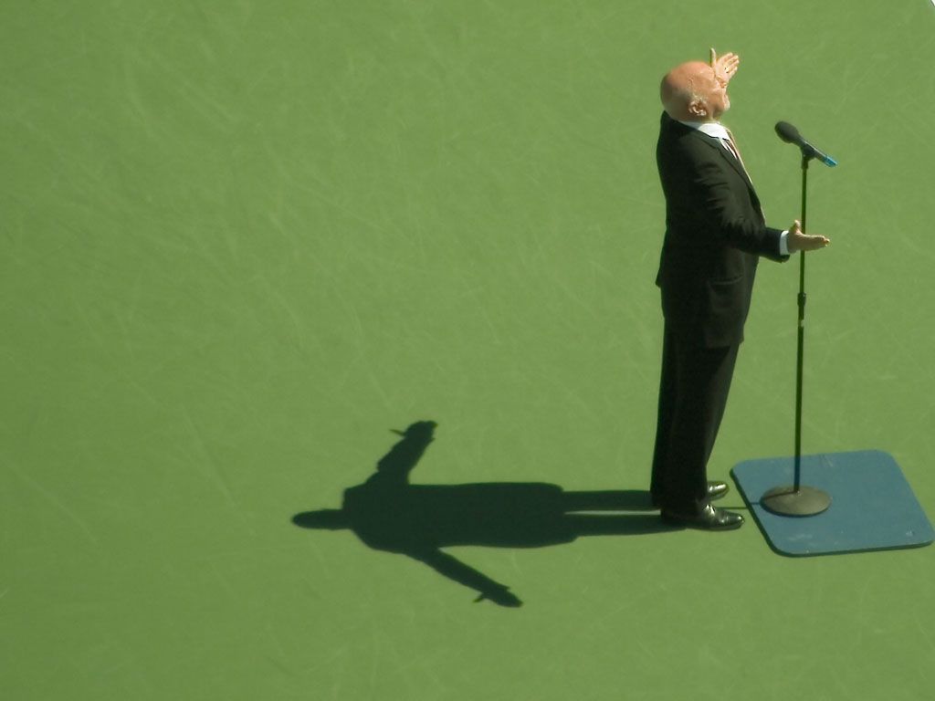 Dominic Chianese singing God Bless America at US Open